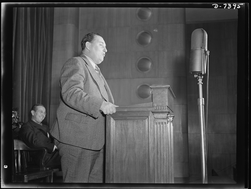 Henderson rally. Leon Henderson, Administrator, Office of Price Administration (standing) first meeting of OPA training program for price control, December 1, 1942. Auditorium, Social Security Building, Washington, D.C.